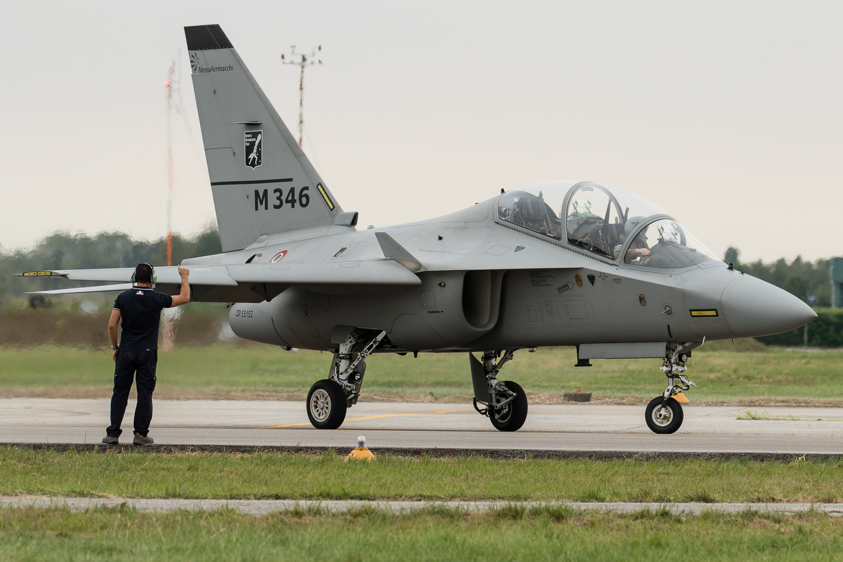 Alenia Aermacchi T-346A Master CSX55152 / M346 with marshal